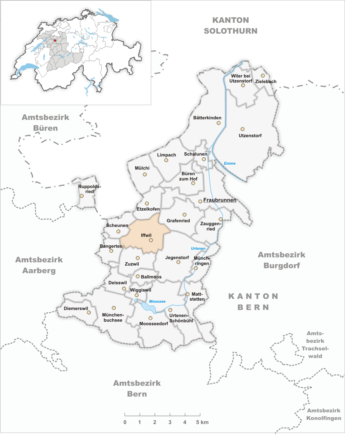 Municipality Iffwil